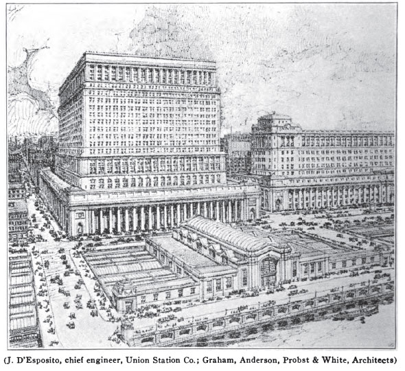 Plan for Chicago's new Union Station, copied out of the Press Club reference book in 1922.